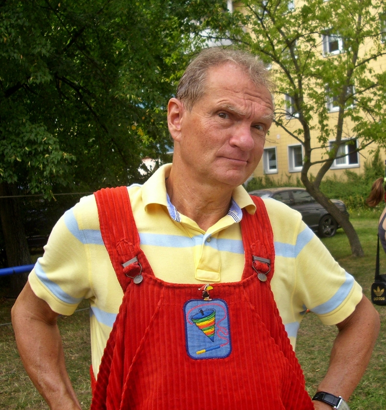 Joachim Kaps Lessee hard in 2013 in Berlin-Marzahn